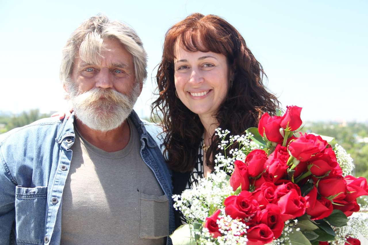 Formerly homeless veteran thanks Stephanie Berman-Eisenberg for new home and fresh start rebuilding life.